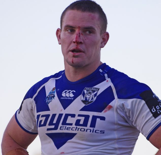 Tim Browne